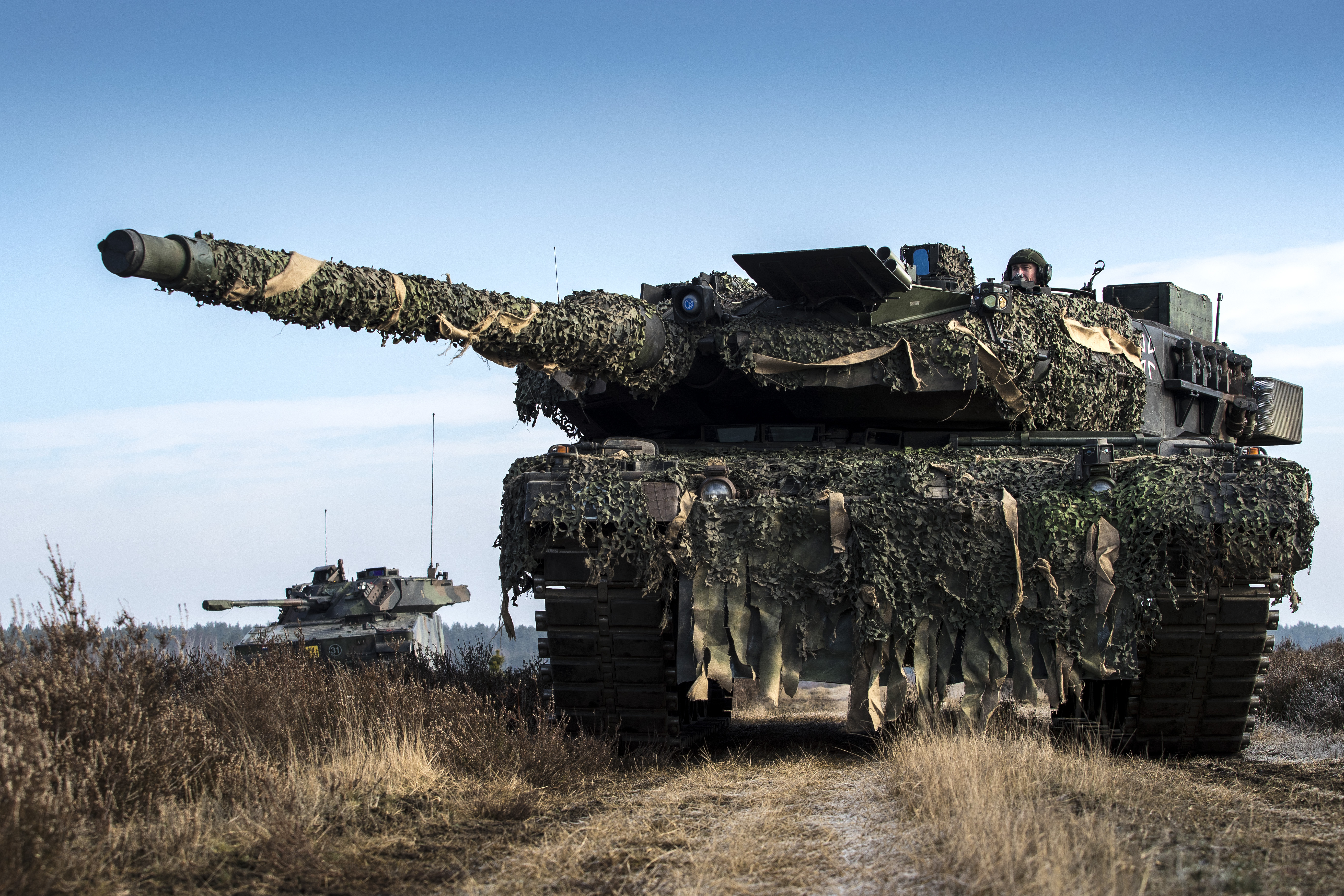 Klietz, Germany. Exercise Peacock Supremacy, February 15, 2018. The Royal Dutch Army's 43rd mechanized bridgade is being trained in operating the CV90. Photo: a joint action of a German Leopard 2 tank and a Dutch CV9035NL.